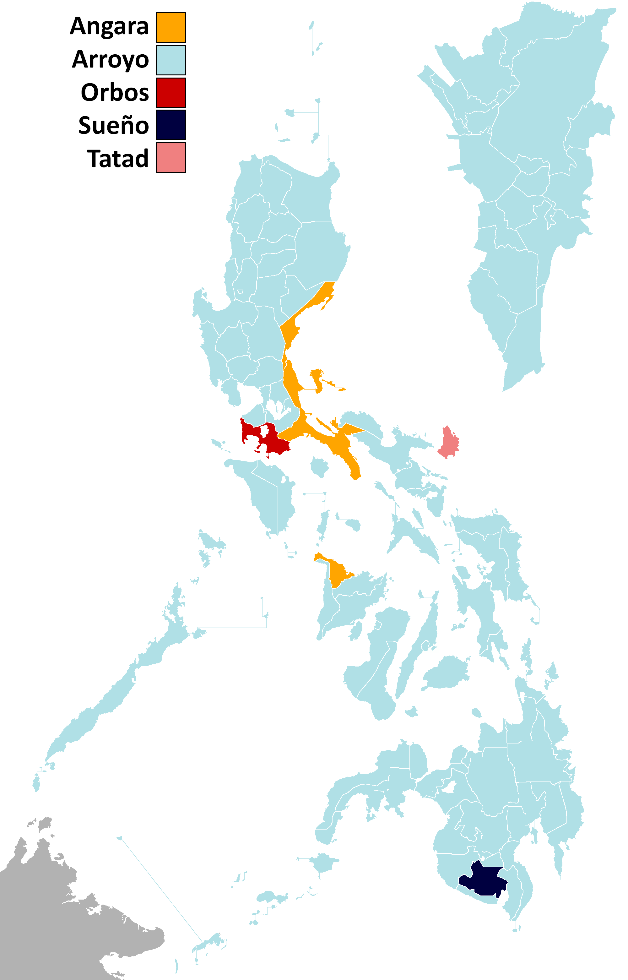 Results of the 1998 vice presidential election per province/city.